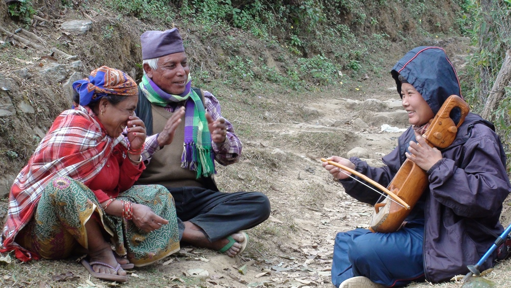 Minu Waiba Playing Sarangi with Santa Bahadur Gandharva.jpg